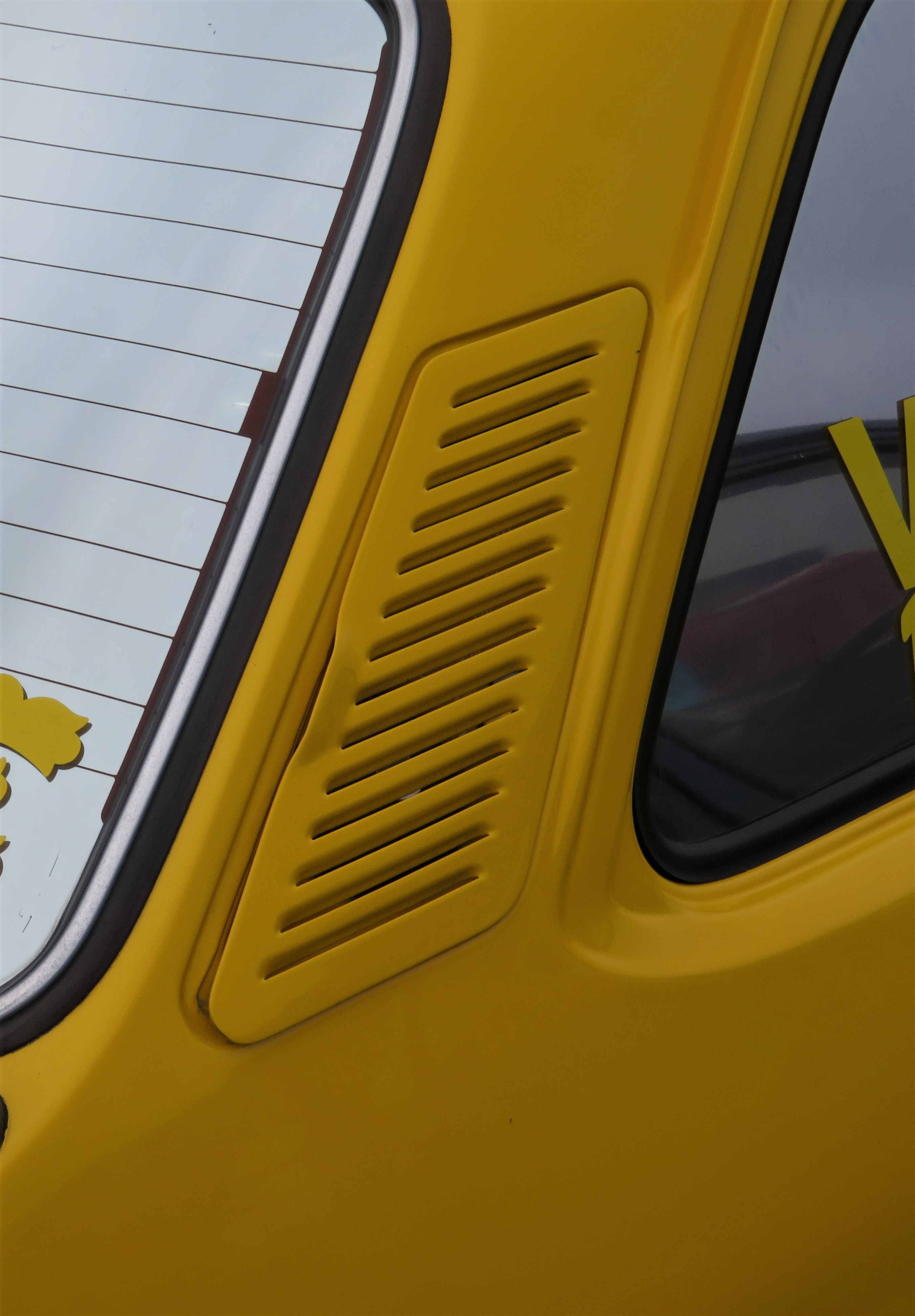 Opel Kadett C The picture shows the righthand C-pillar on which the apparent extractor vent is actually the fuel filler flap (notchback/saloon/sedan bodied models only)